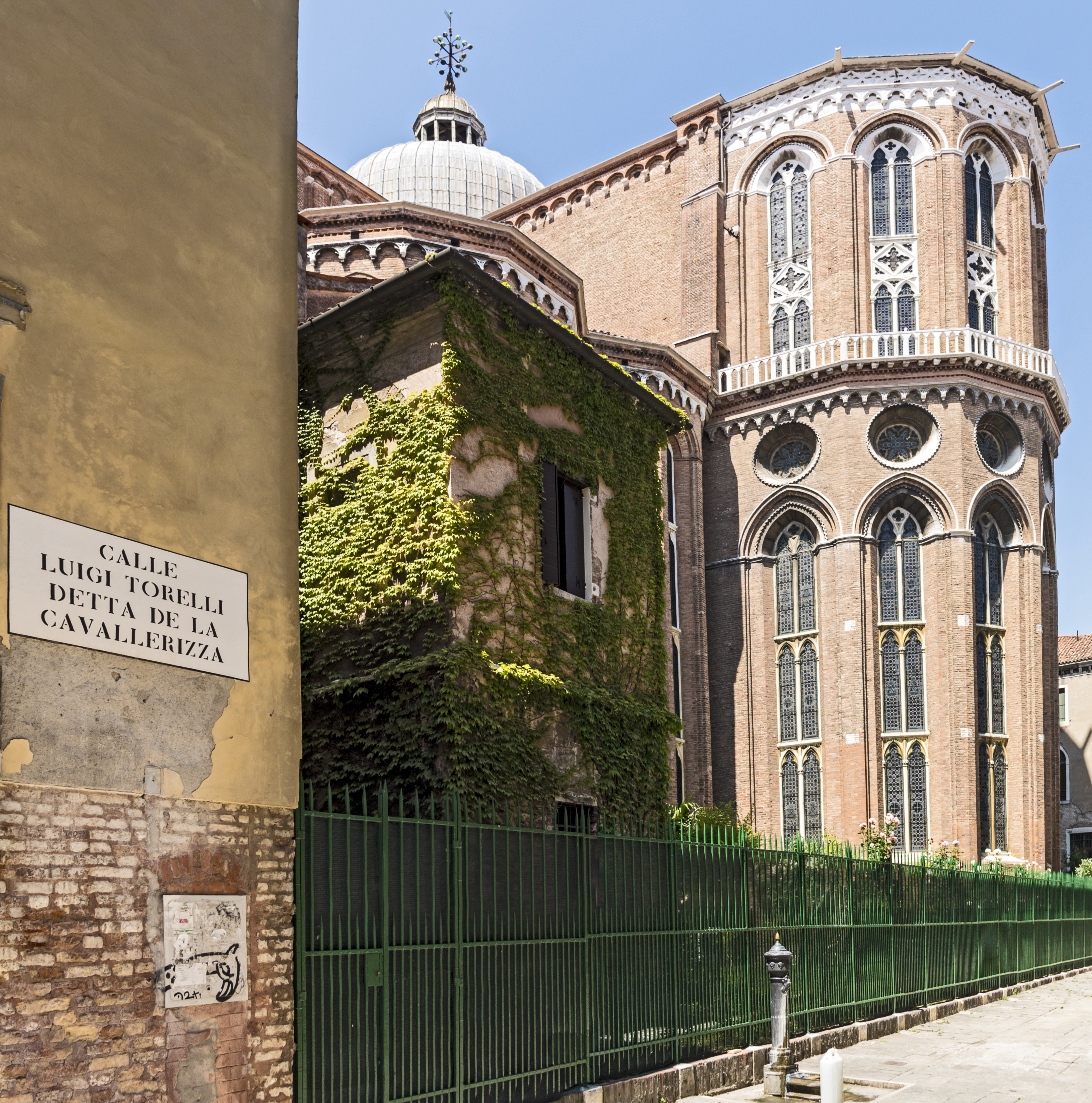 Santi Giovanni e Paolo, Venice - Facade - The apse.